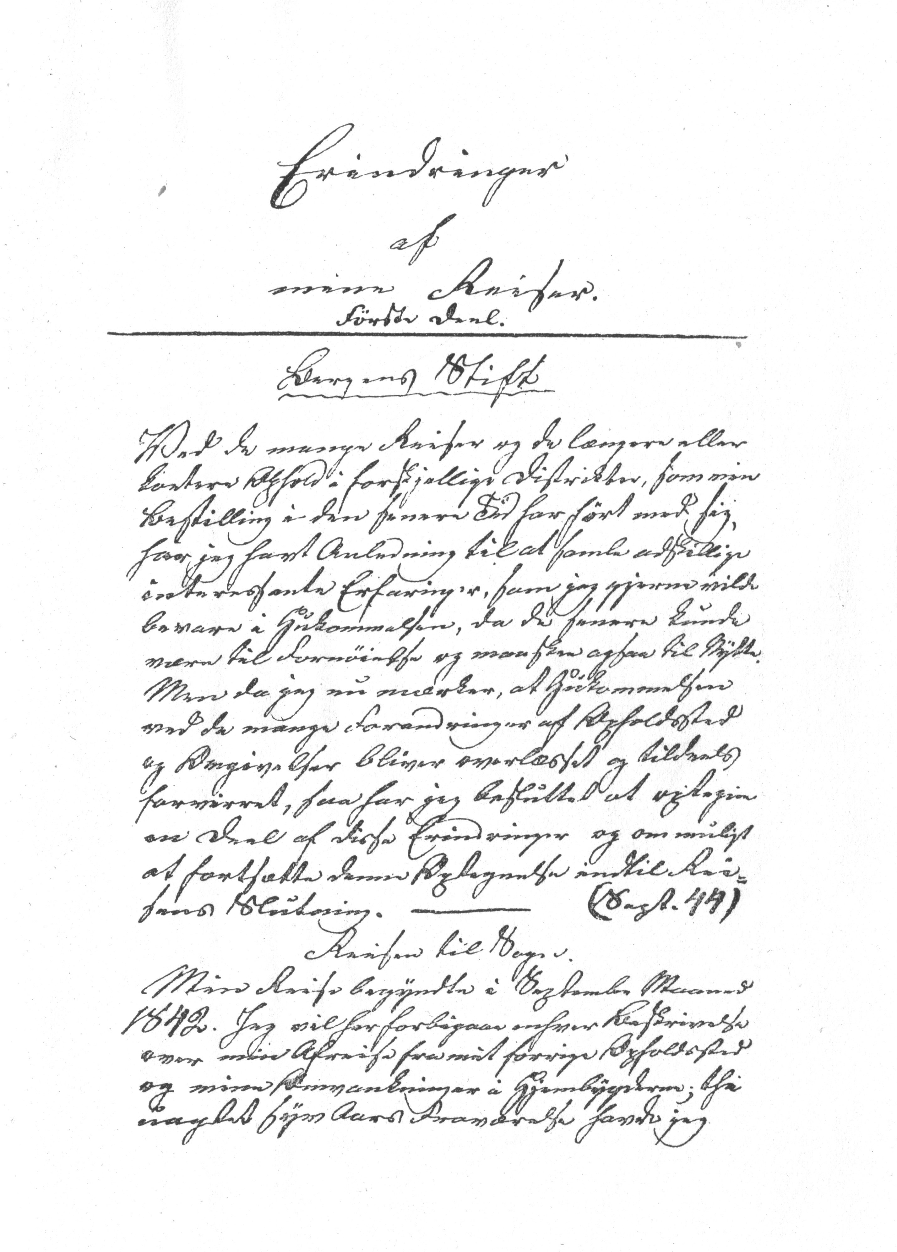 Ivar Aasen's (1813–96) manuscript of Reise-Erindringer.